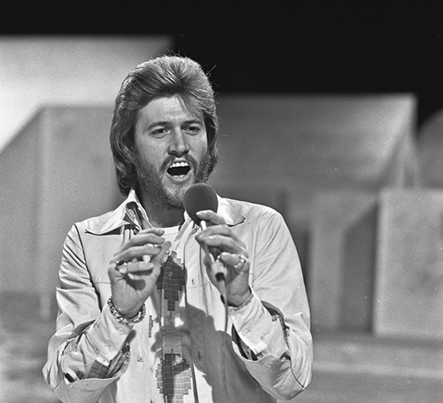 Barry Gibb (Bee Gees) in AVRO's TopPop (Dutch television show) in 1973